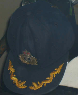 The cap Captain J.J. Black wore during his command of HMS Invincible during the Falklands War, on display at the Imperial War Museum.